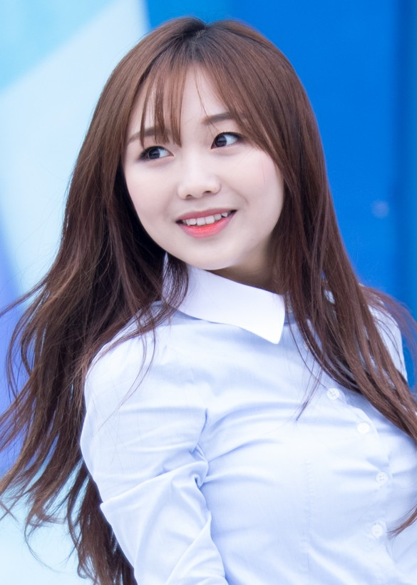 Ryu Soojung at 1won 1m charity concert, 30 May 2015